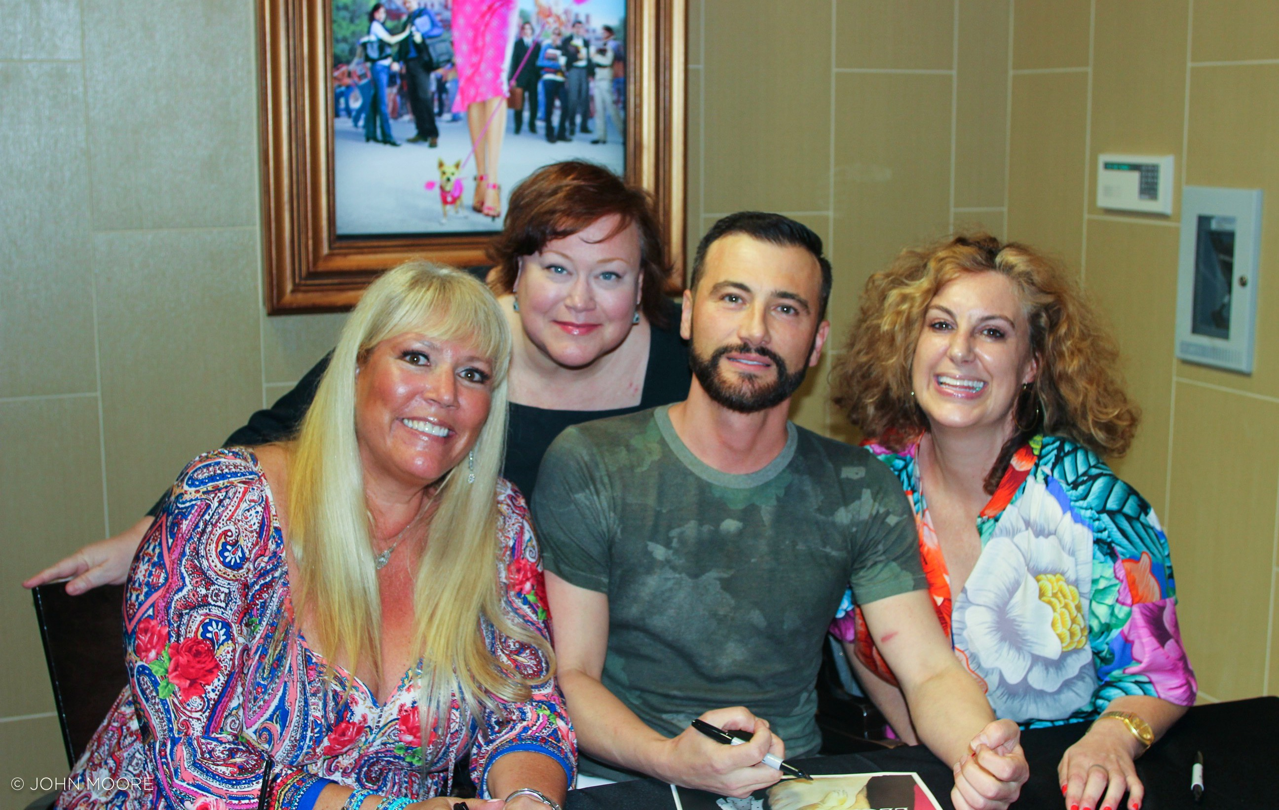 Robert Luketic, Kirsten Smith, Karen McCullah and filmgoer Carla Kaiser Kotrc attend a Denver Actors Fund screening of the film.